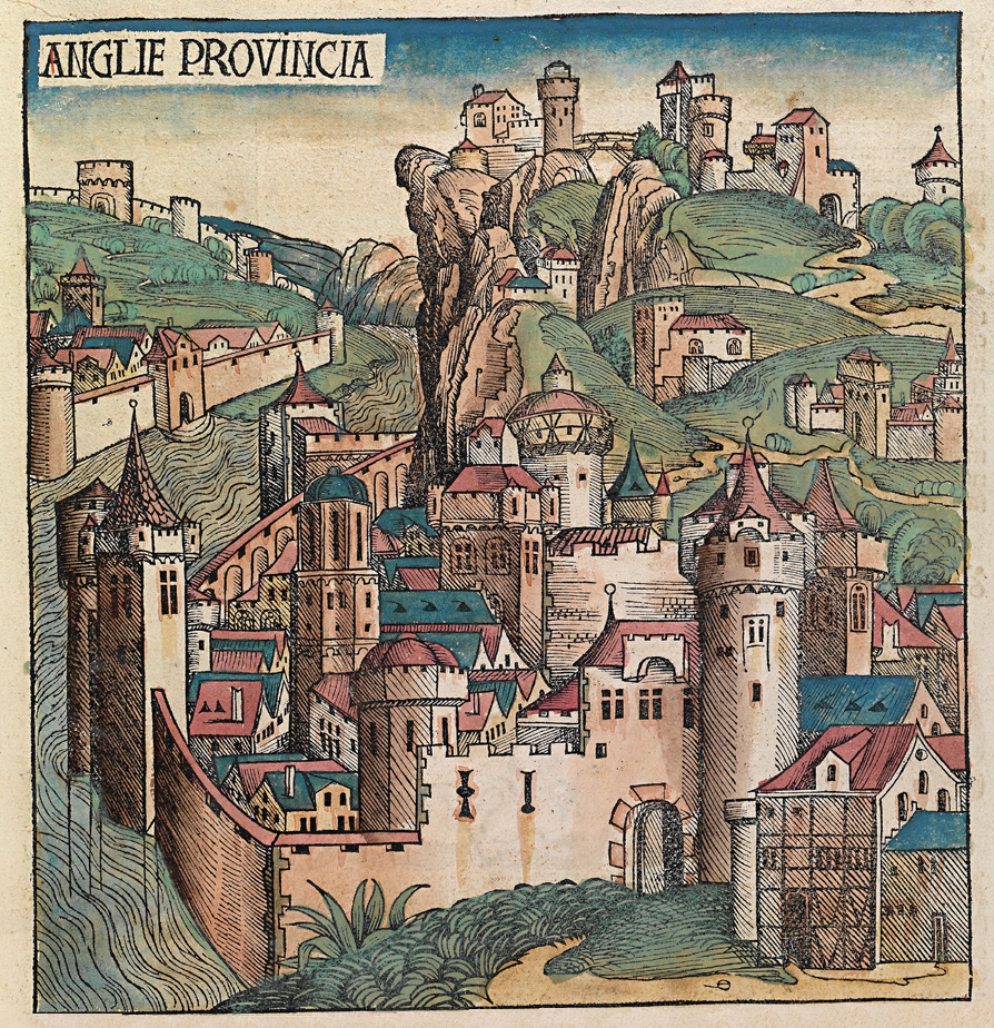 Woodcut from the Nuremberg Chronicle